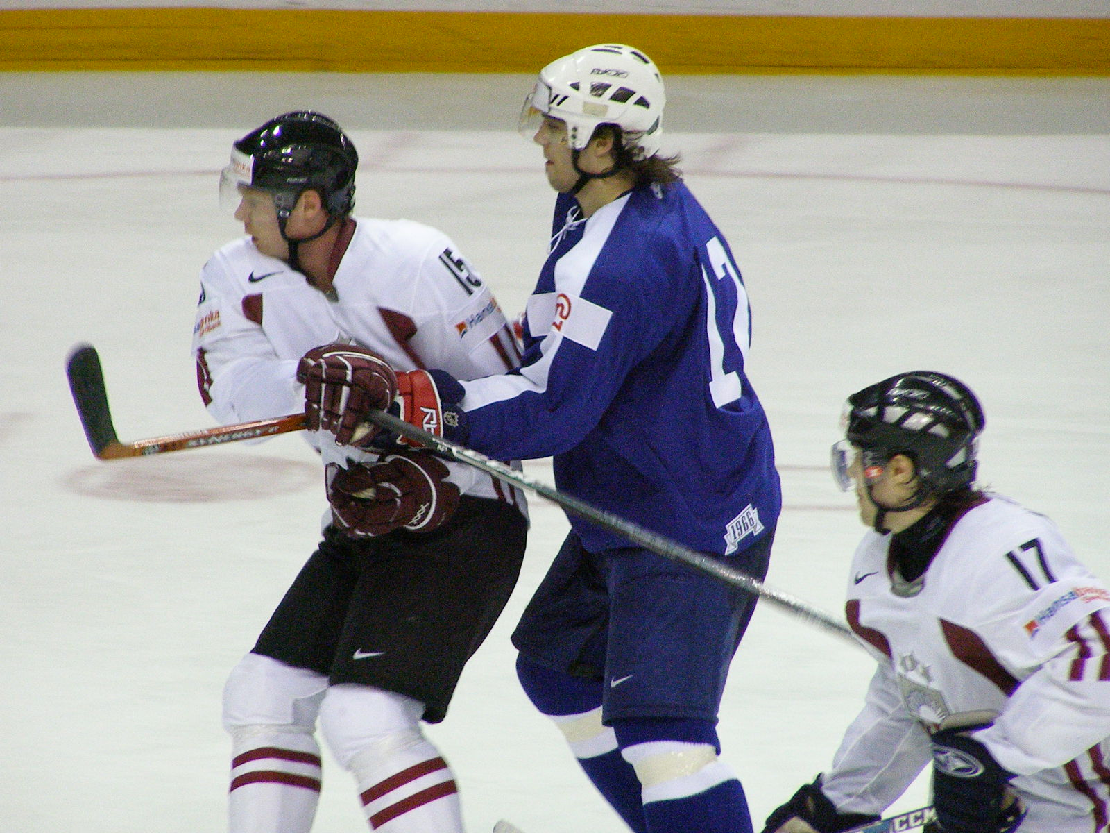 Latvia VS Slovenia (IIHF World Hockey Championship in Halifax NS, May 6 2008)